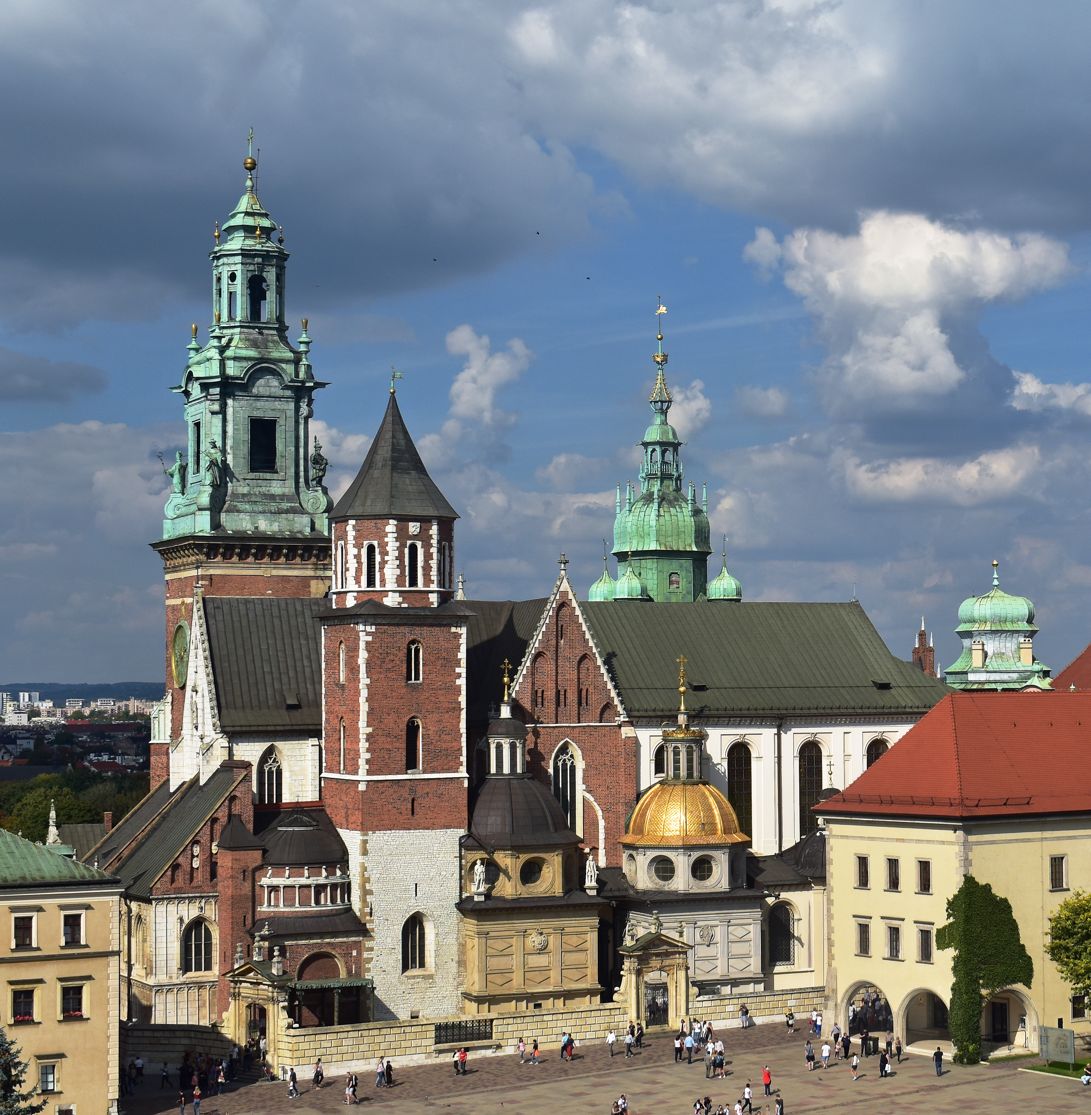 Church of St. Stanislaus and St. Wenceslaus, Wawel 1, Old Town, Krakow, Poland